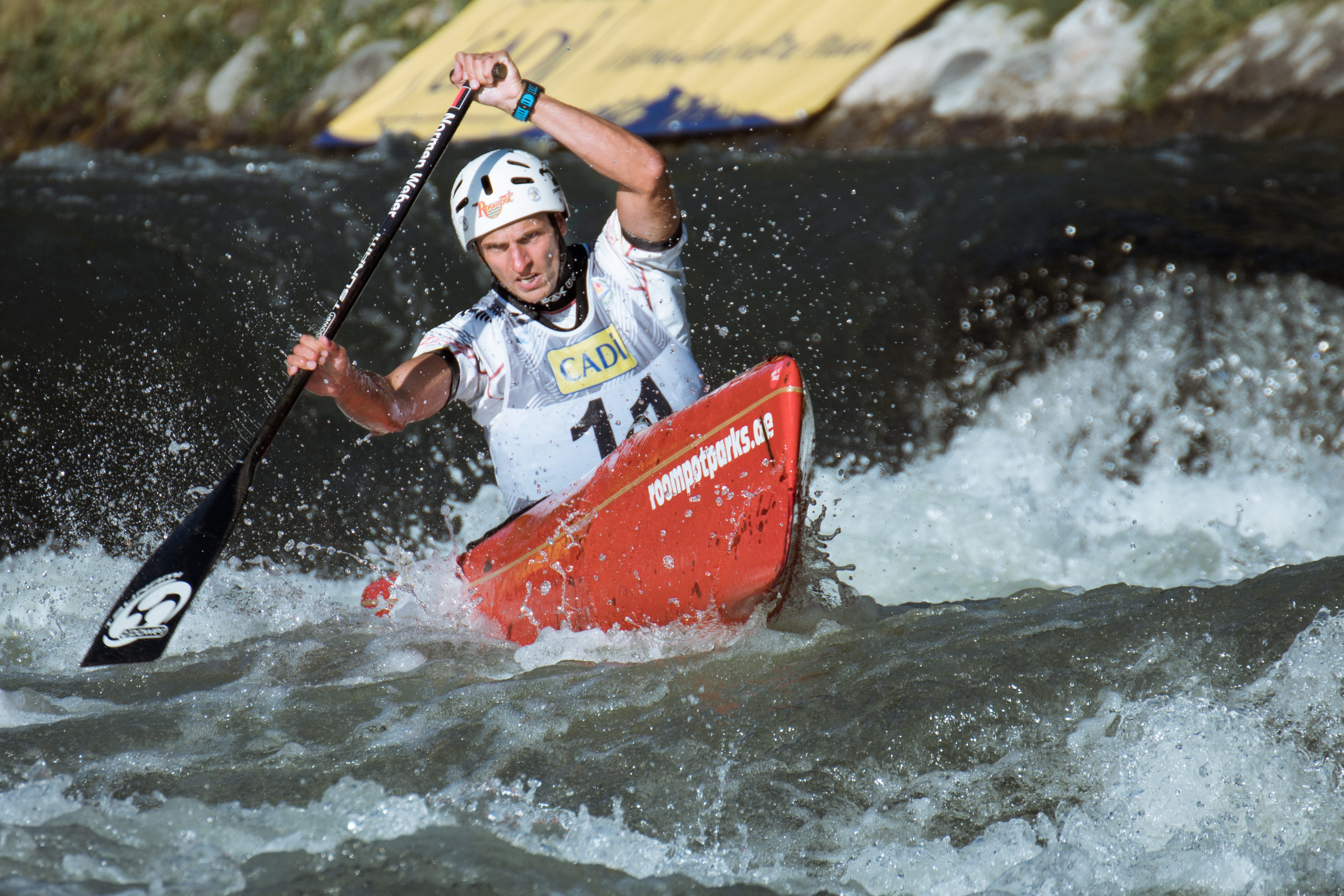 Normen Weber during the 2019 Canoe Wildwater World Championships in La Seu d'Urgell, Spain.